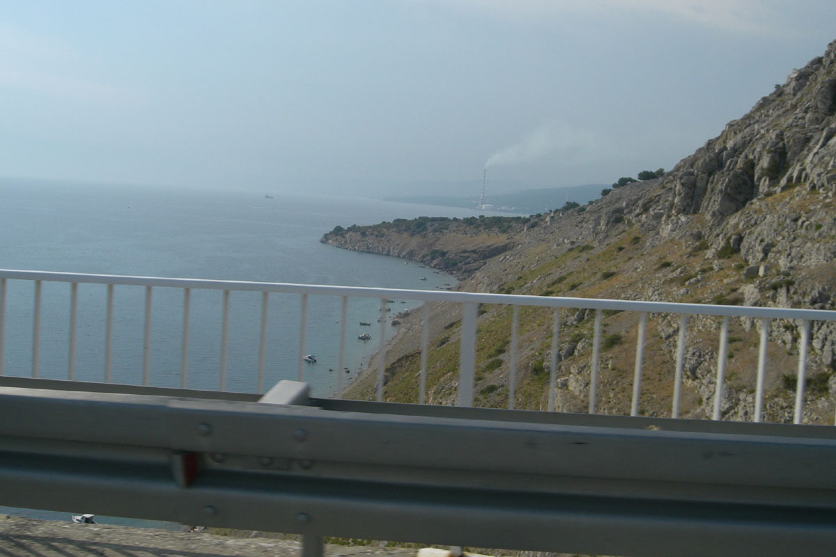 Island od St. Marko, Croatia, view from Krk bridge.